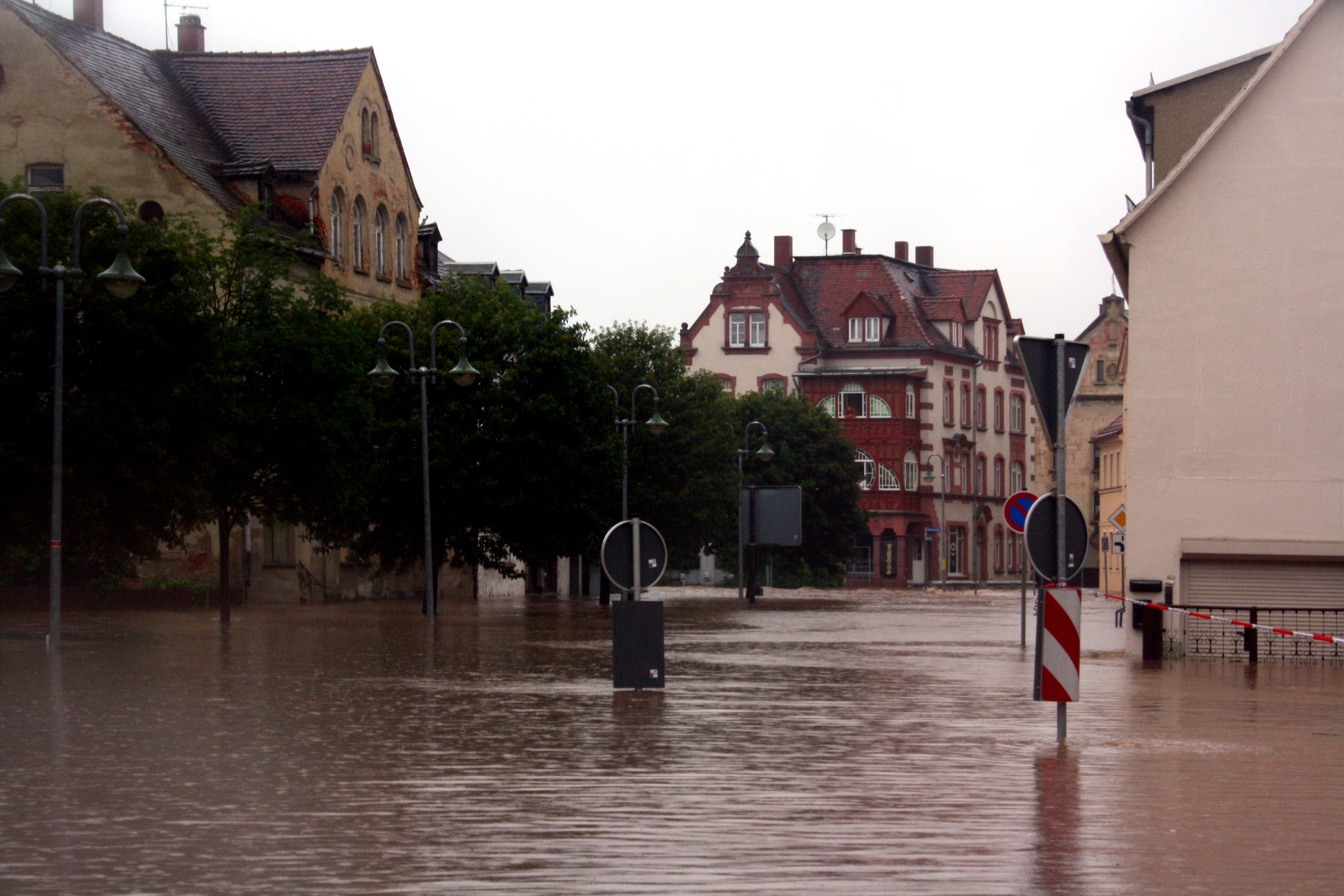 Floodwater in Gößnitz/Thuringia in 2013